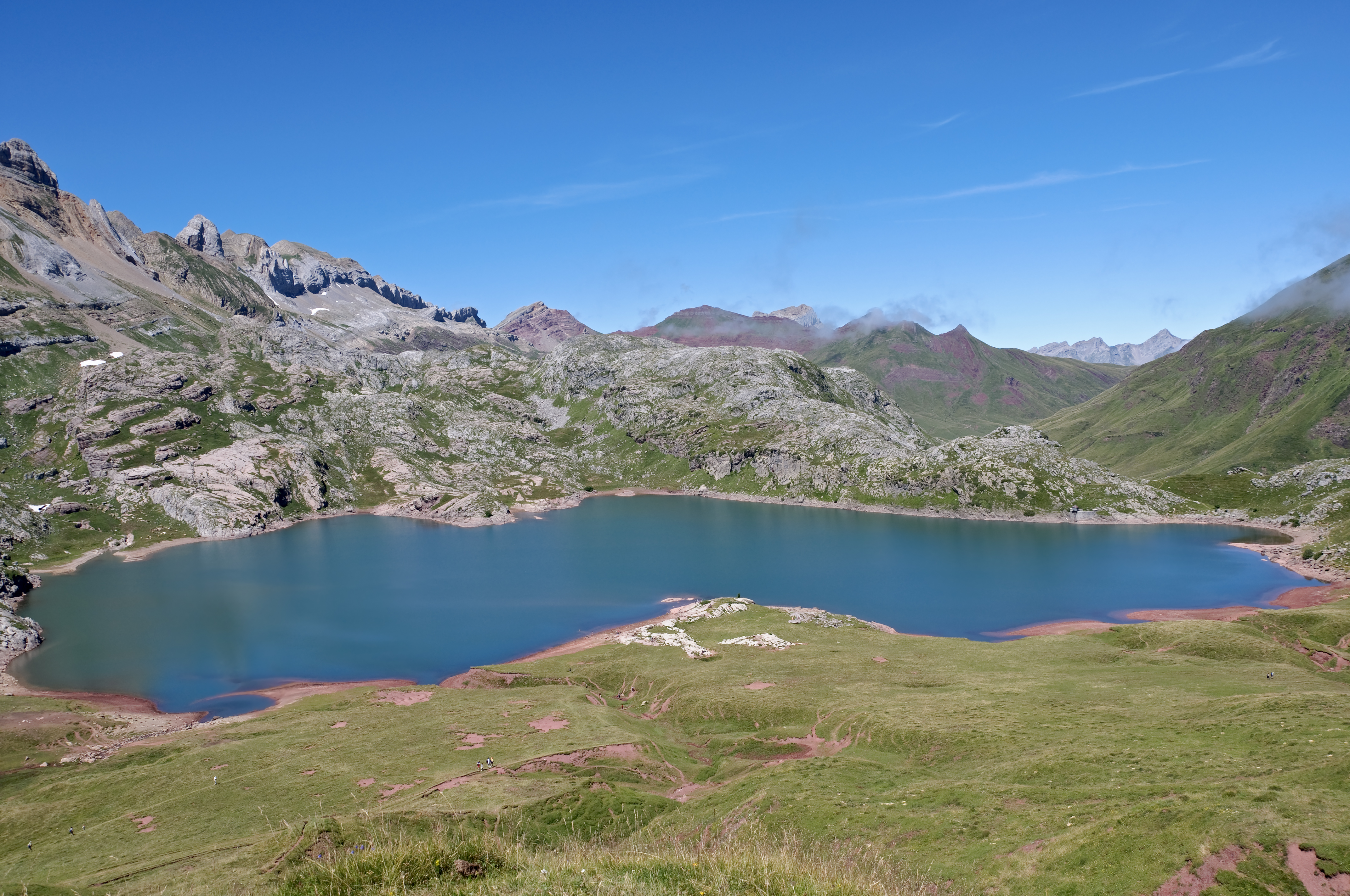 The lake of Estaens in the Spanish Pyrenees, in Aragon.